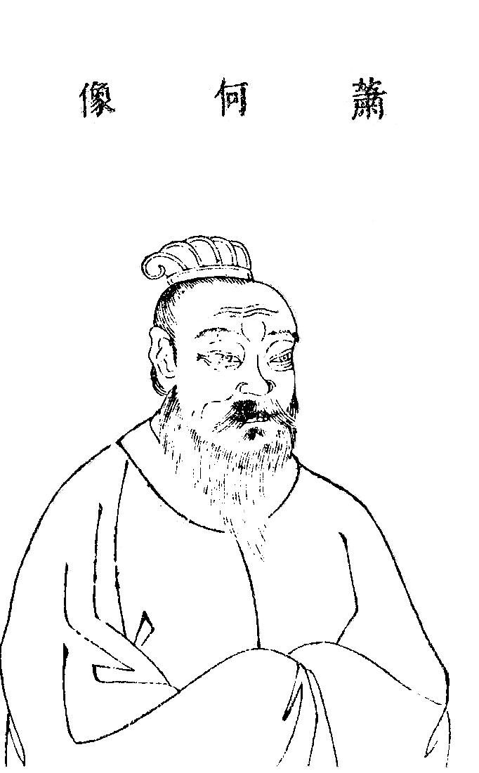 A portrait of the Xiao He from Sancai Tuhui.